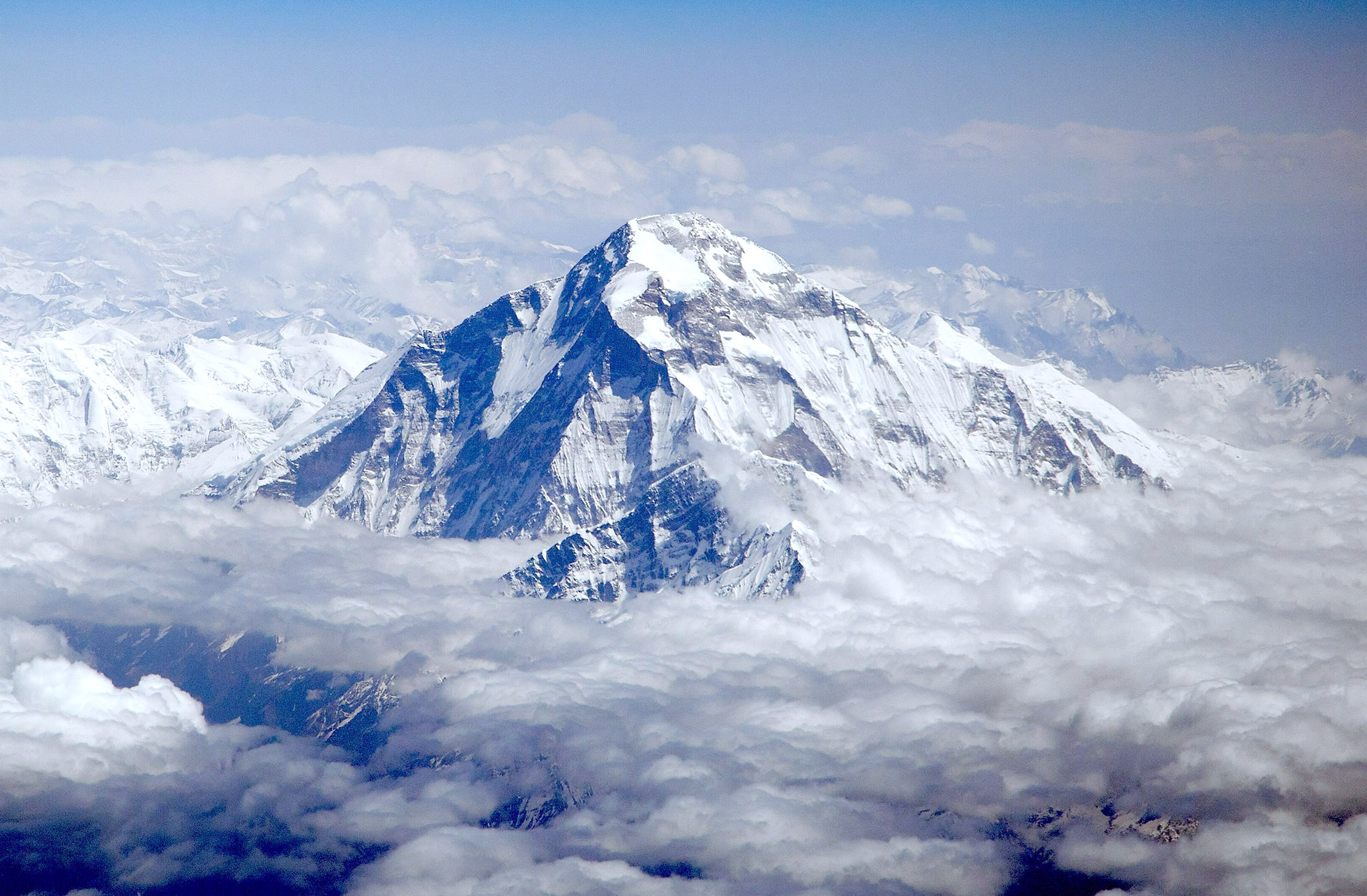 Dhaulagiri (8167 m), view from aircraft / Nepal.